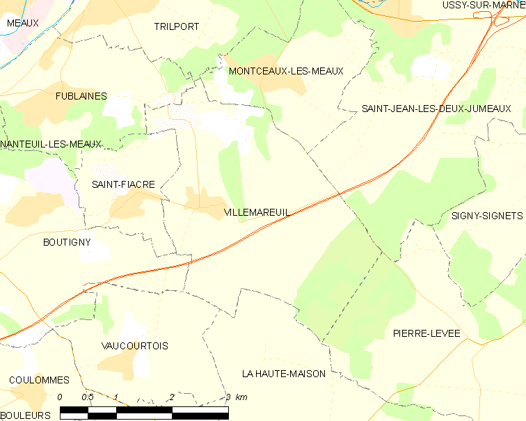 Map of French municipality Villemareuil